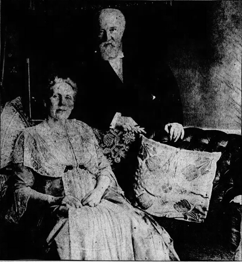 CONGRATULATING MR. AND MRS. RUDOLPH BLANKENBURG ON FIFTY YEARS OF HAPPY MARRIED LIFE. "Get married when you're young and you can adapt yourselves to each other", is the advice of the former fighting Mayor to the younger generation on the golden anniversary of his wedding.